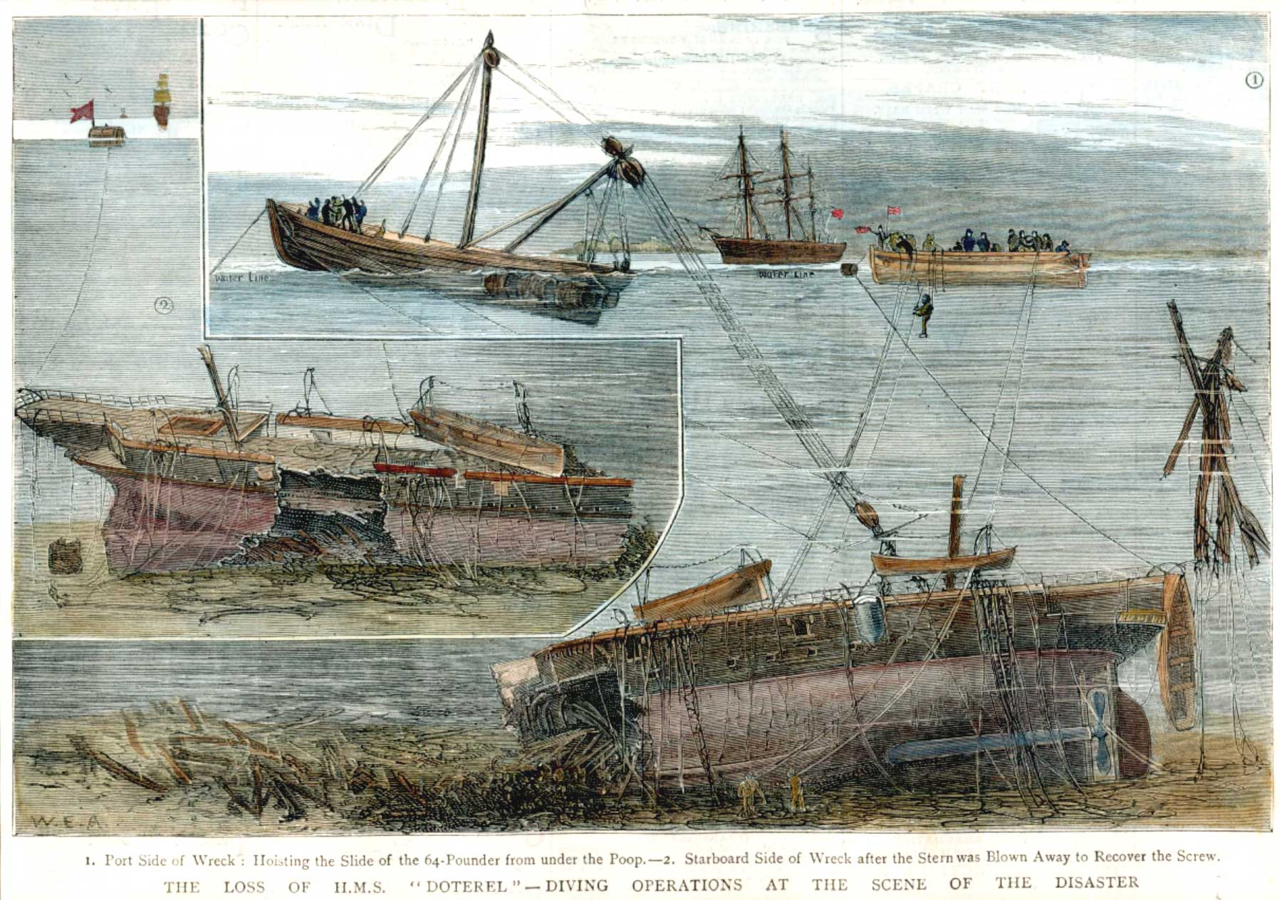 Salvage of the wreck of the HMS Doterel